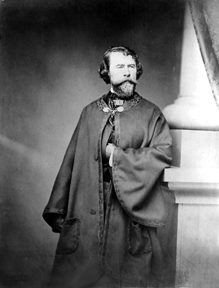 Daguerreotype of American publisher and poet Nathaniel Parker Willis (1806-1867).